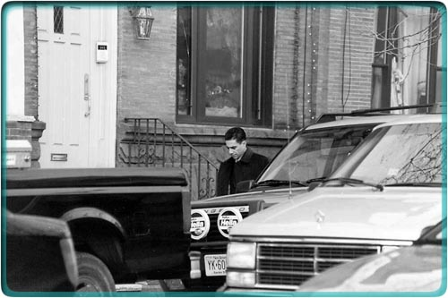 Joey Merlino, shown here in a government surveillance photo, circa 1995.